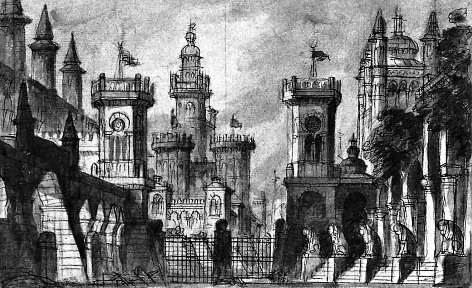 Francesco Bagnara's stage set (1835) for Giacomo Meyerbeer's Il crociato in Egitto (Act I, Scene 1)